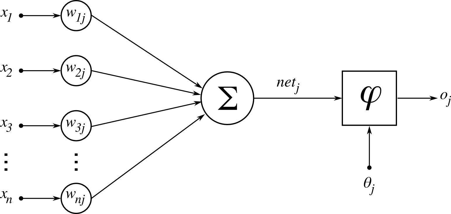 Diagram of an artificial neuron.